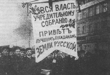 Demonstration in support of the Russian Constituent Assembly. Petrograd. Russia.